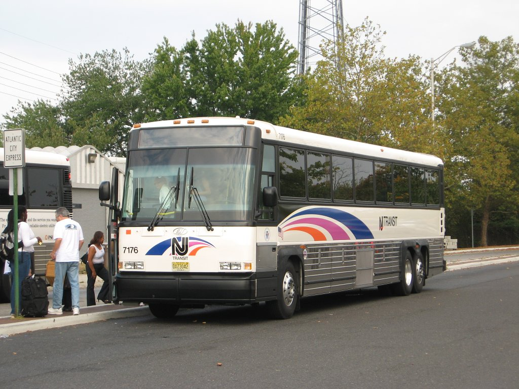 New Jersey Transit MCI D4500CL with restroom 7176 on the #319 in Toms River, New Jersey.